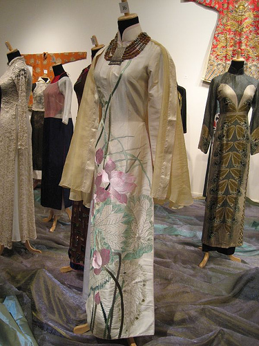 Photograph I took at the Ao Dai exhibition in San Jose in 2006.